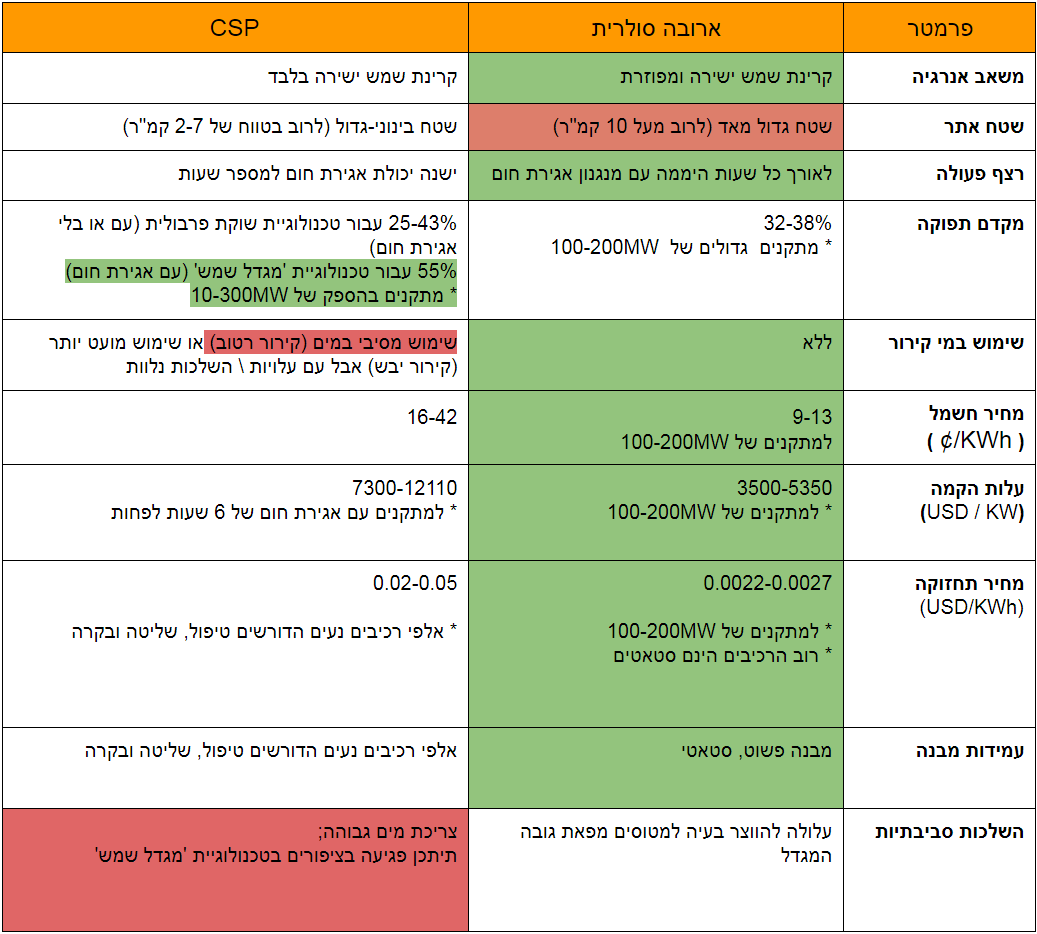 Solar chimney vs csp in hebrew